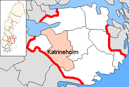 Katrineholm Municipality in Södermanland County Designd by me, based on Image:Södermanland County.png